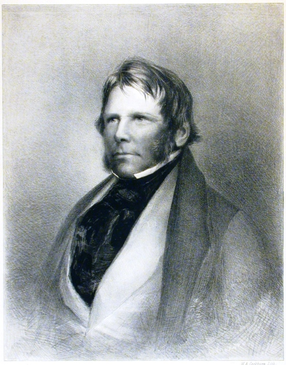 Print, James Pattison Cockburn, by William A. Cockburn, 1849, Ink on paper, 34.1 x 27.5 cm